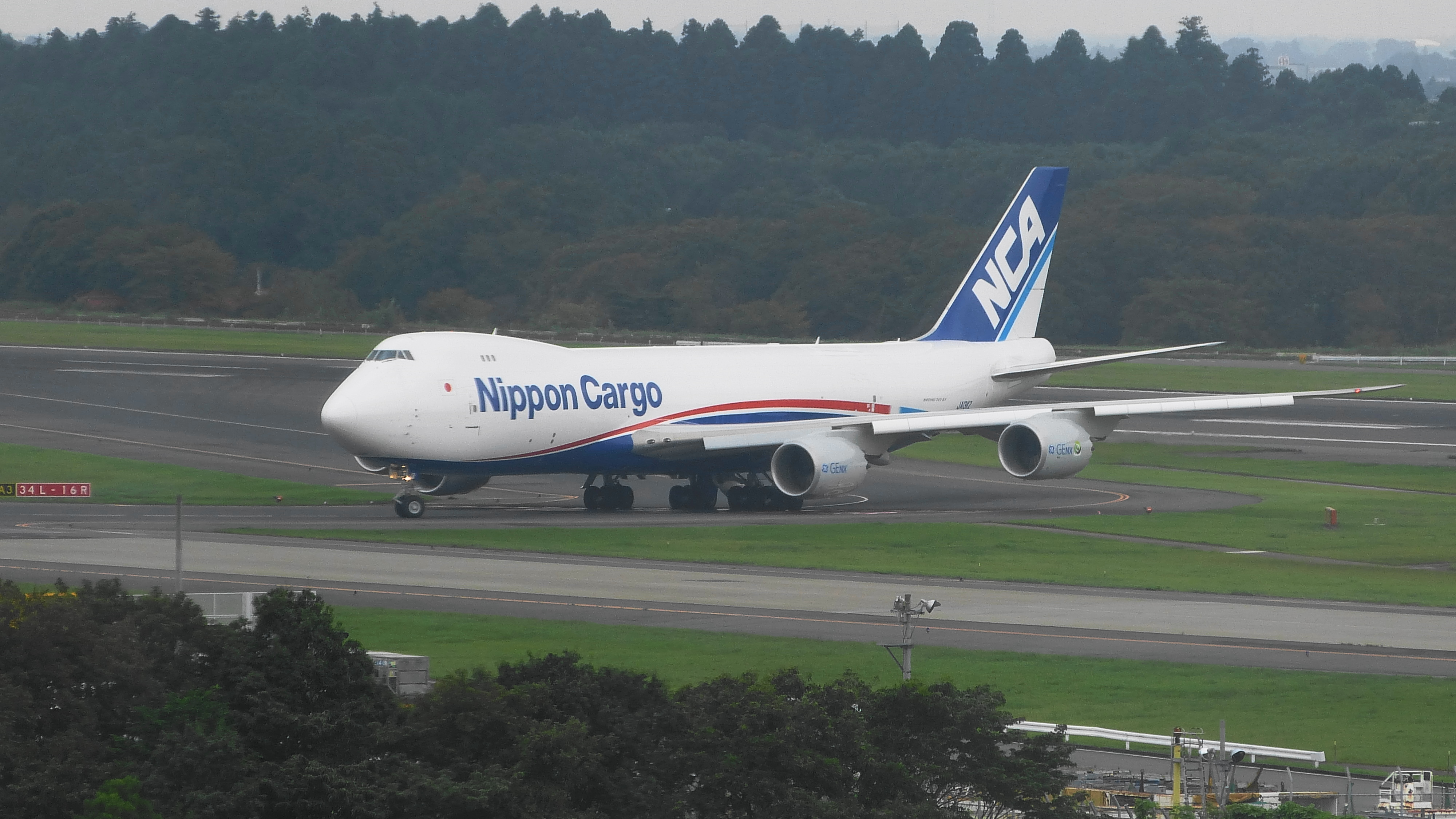 Nippon Cargo Airlines Boeing 747-8F at Narita Airport, Japan